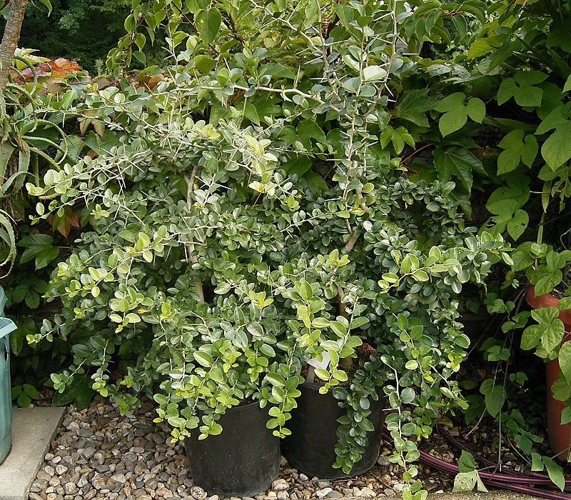 Dovyalis caffra